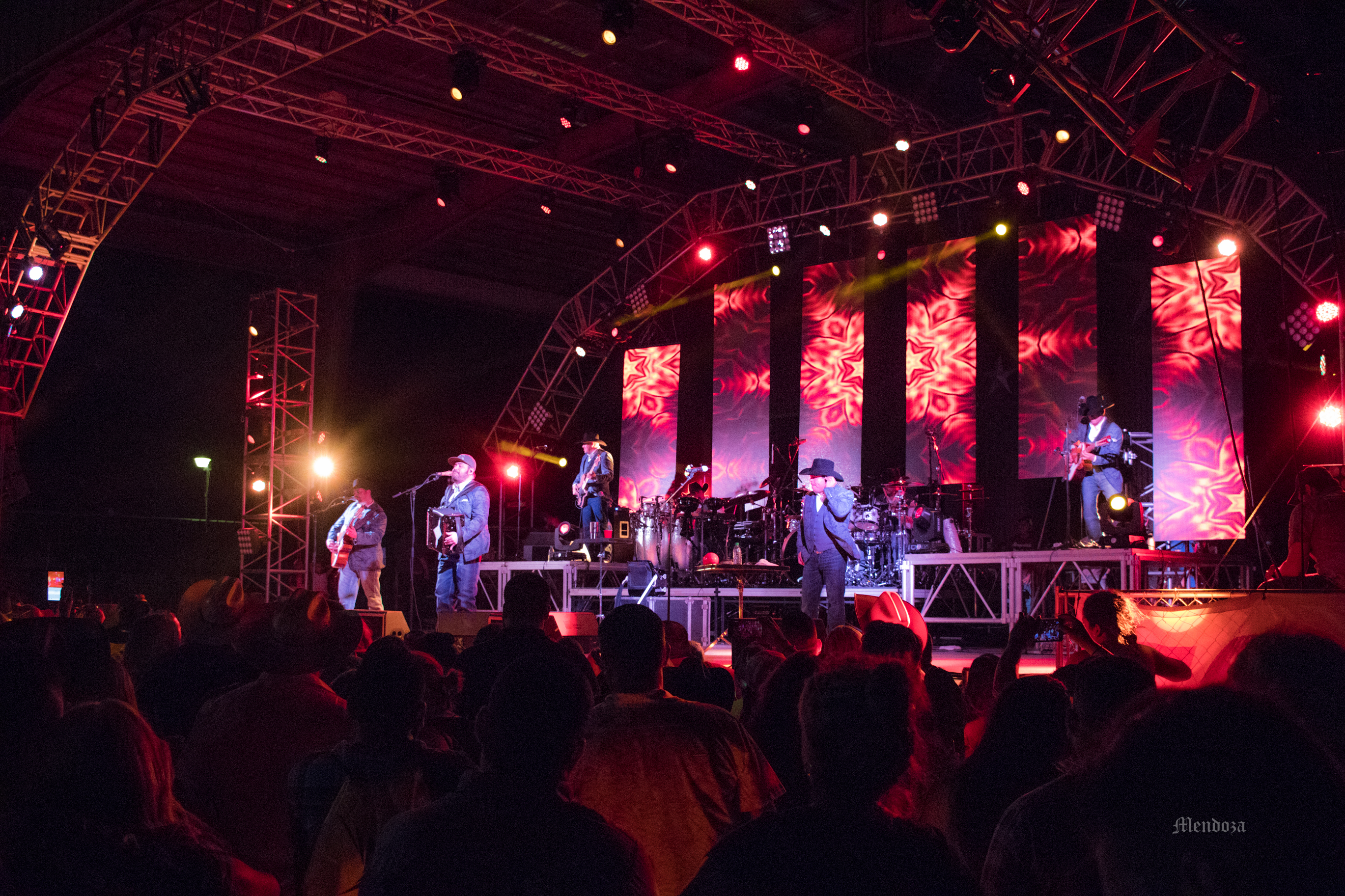 Intocable at L.I.F.E Downs Laredo July 3, 2016